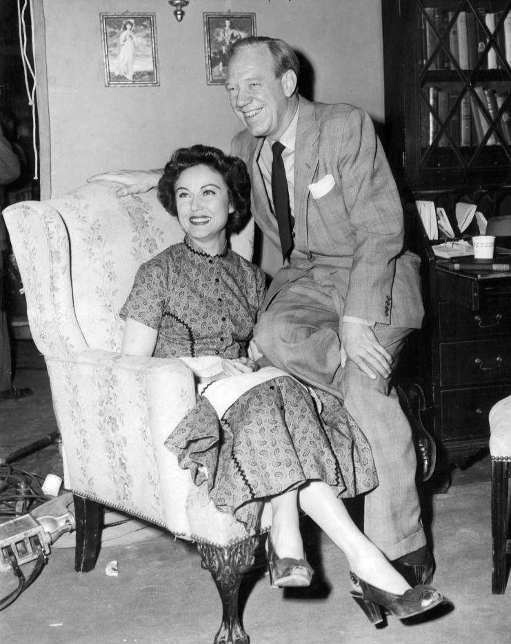 Publicity photo of Paul Hartman and Fay Wray from the television program The Pride of the Family.